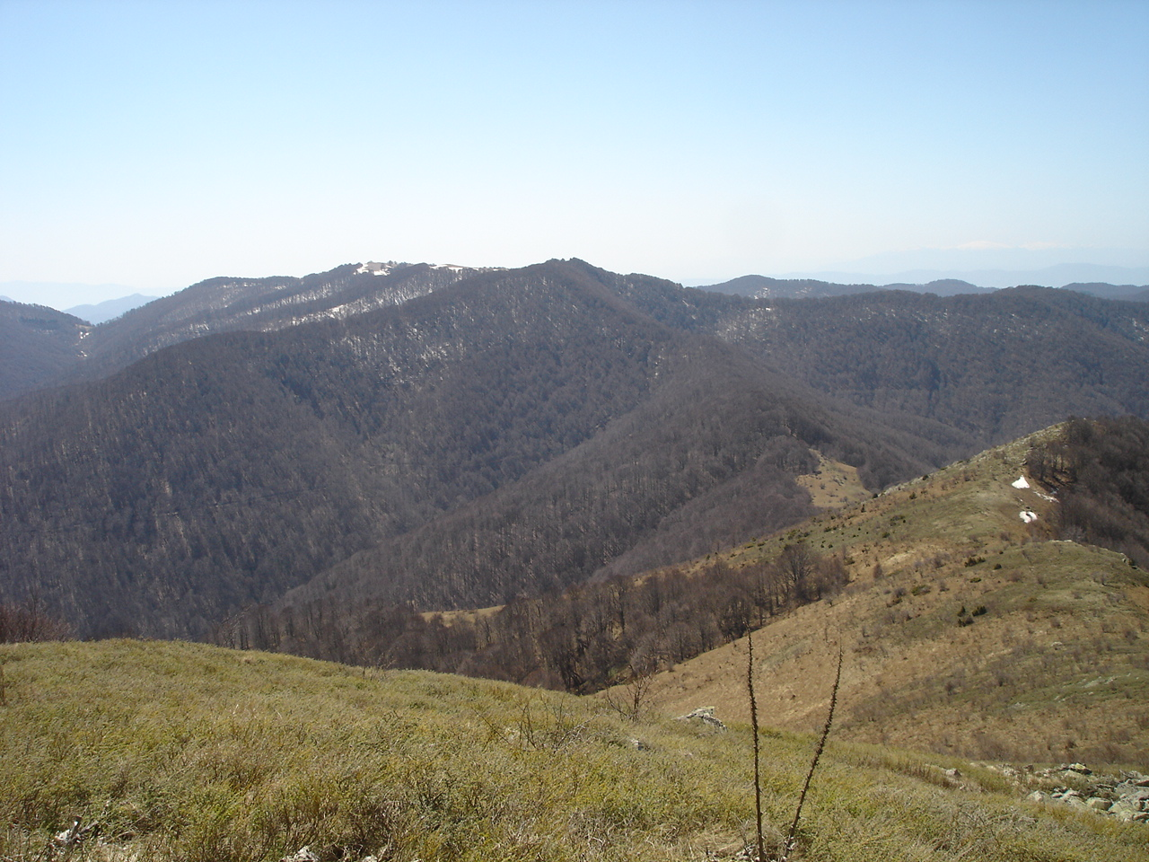 Bel Kamen peak on Plachkovica, Macedonia